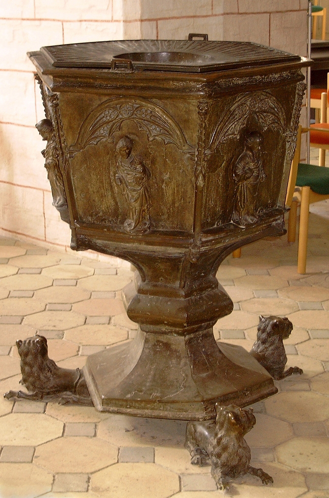 Baptismal font of 1391 in St. Nikolai, Burg (Fehmarn)